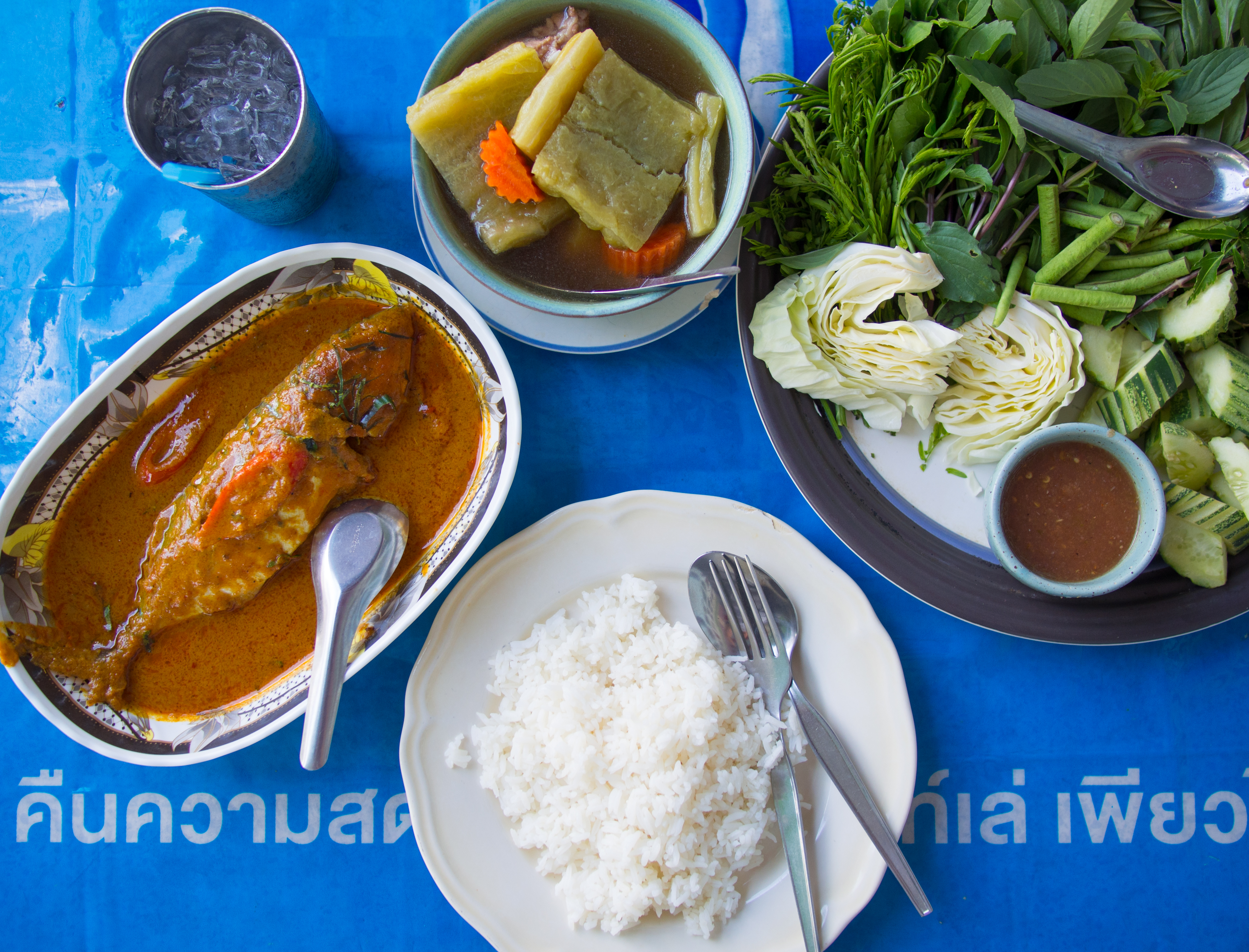 Chuchi pla thu sot and tom mara with rice at a southern Thai eatery in Chiang Mai. The vegetable platter is complimentary at this eatery. The whole meal cost 110 baht.